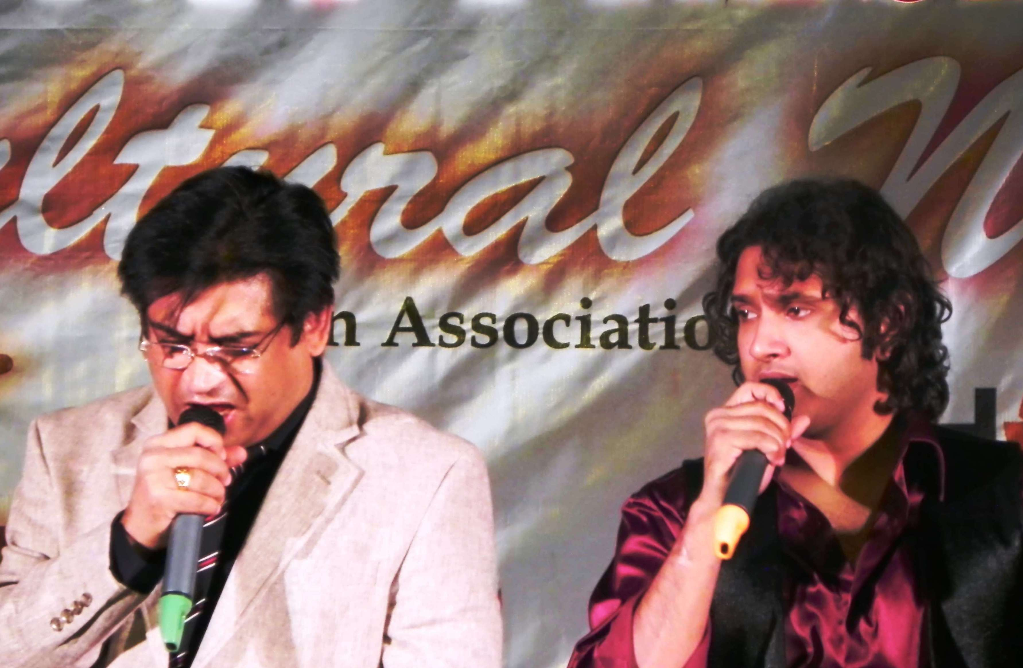 Amit Kumar and Sumit Kumar performing during Cultural Nite Aarohi 2011